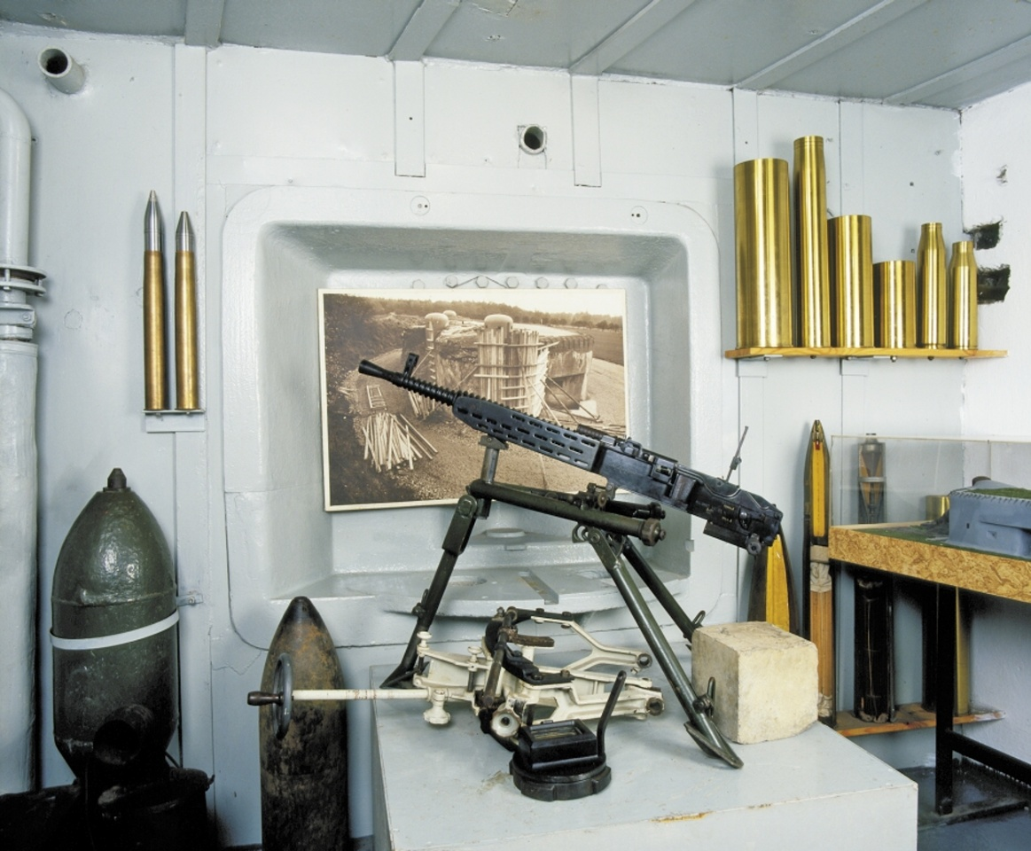 MO-S 19 V aleji infantry casemate; Silesian museum - Darkovičky 5